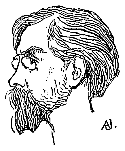 Portrait of French writer and journalist Jules Case (1854-1931) after Edmond Aman-Jean (1858-1936)